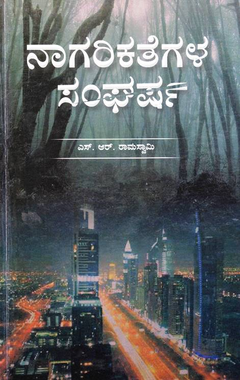 "Nagarikathegala Sangharsha" by S. R. Ramaswamy, a book with critical analysis in Kannada language on Samuel Huntington's "Clash of Civilizations and Rise of New World Order"